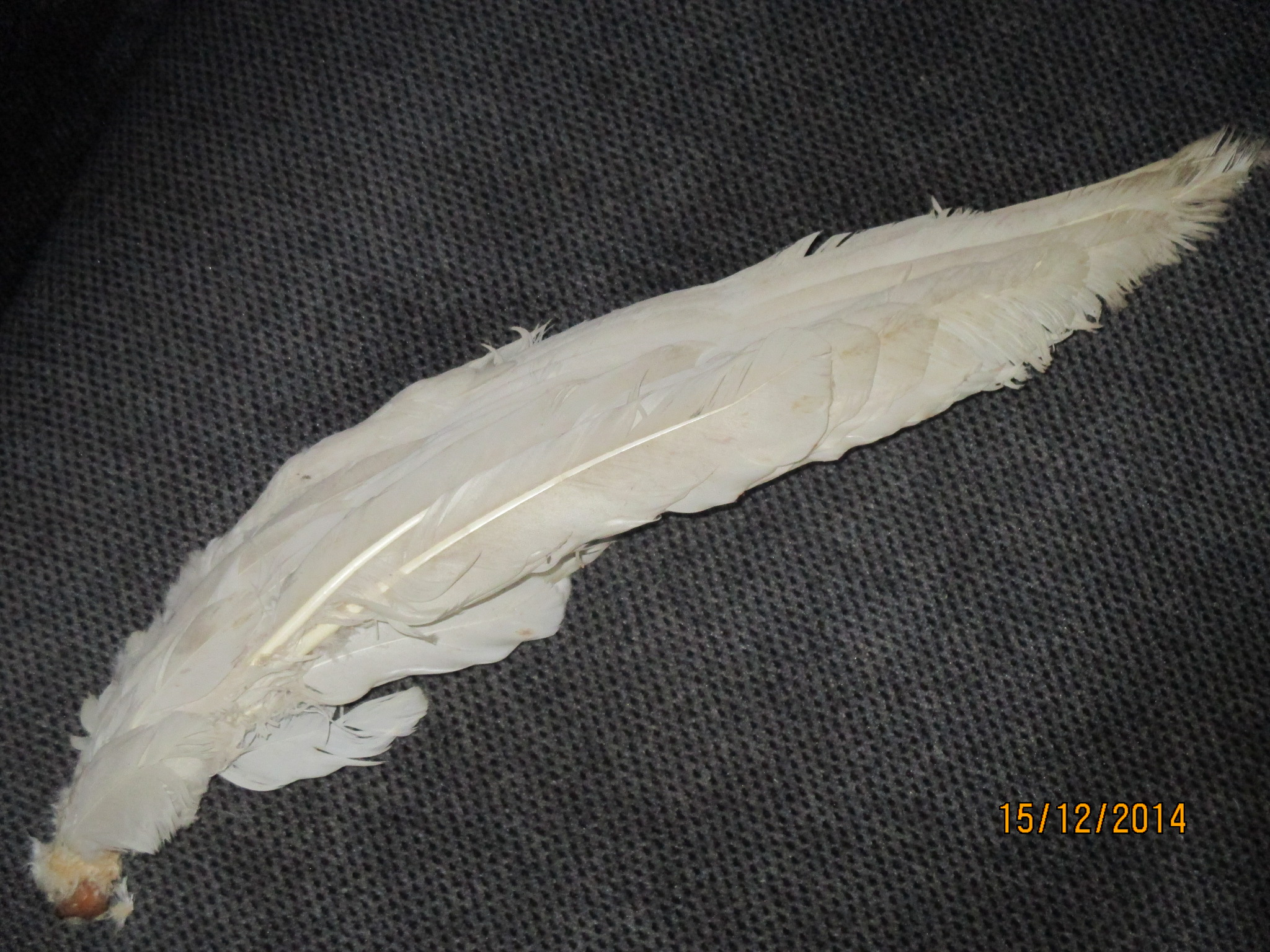 feather duster